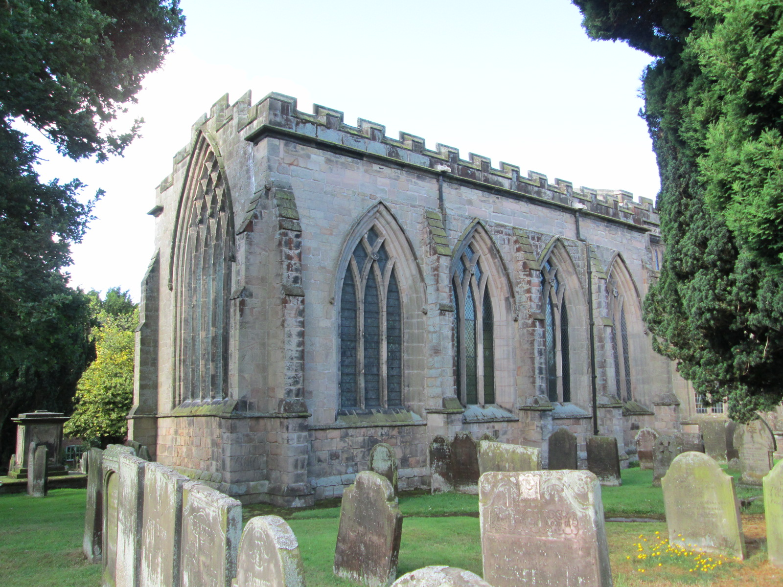 St Mary and All Saints Church, in Checkley, Staffordshire: view of the chancel, from the north.